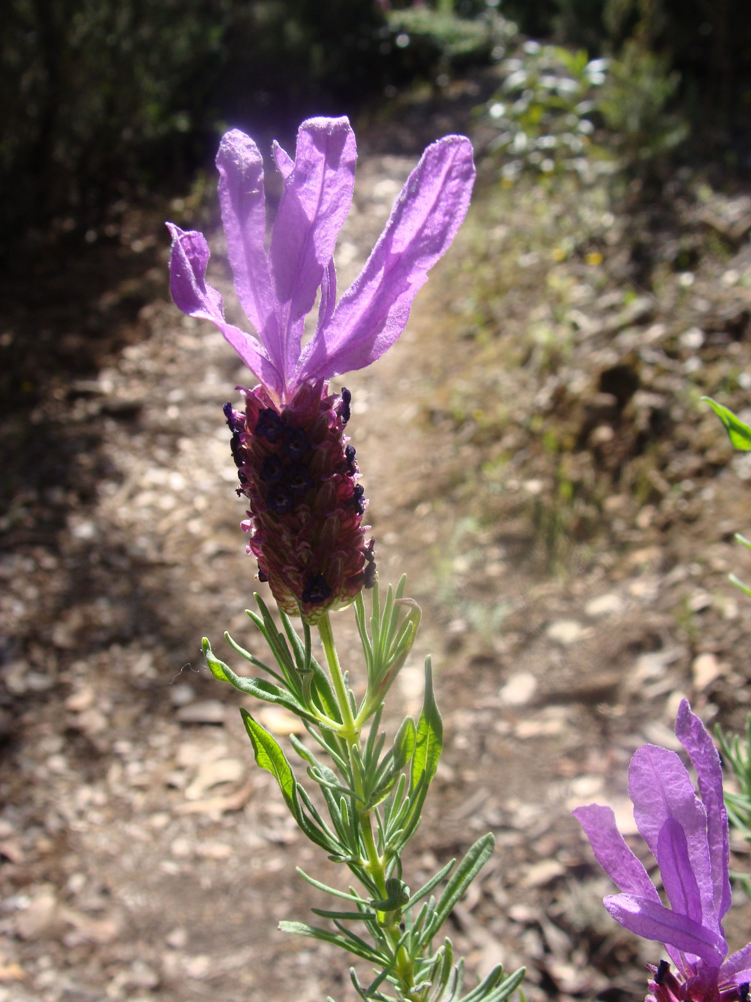 Lavandula stoechas (Spanish Lavender), in the National Park of Monfragüe, Cáceres, Extremadura, Spain.